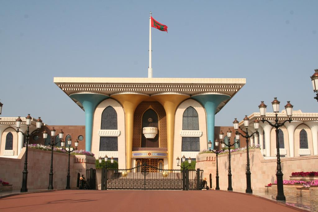 The Sultans Palace in Muscat